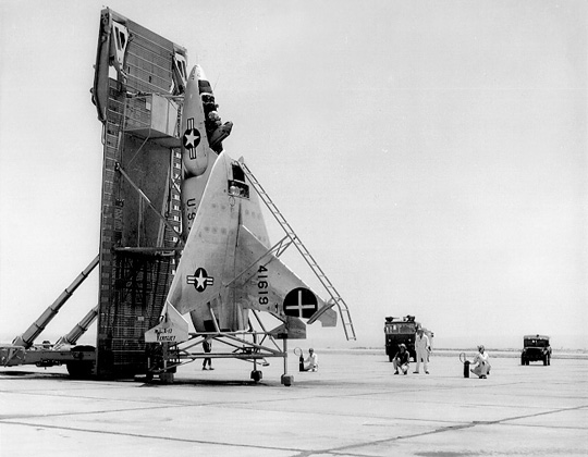 Ryan X-13 Vertijet (#54-1619) with tail mounted framework